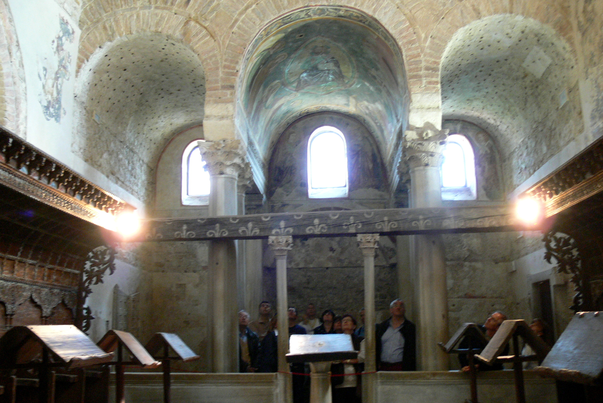 Cividale, Italy. Tempietto Longobardo - eastern parts.